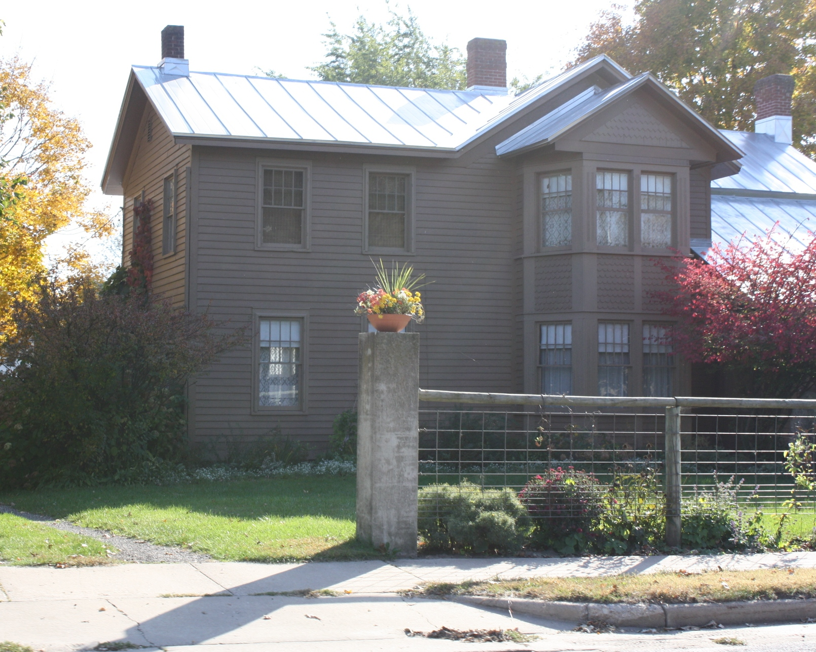 The Hamlin Garland House, the house of the famous author, in West Salem, Wisconsin. It is listed on the National Register of Historic Places and list of National Historic Landmarks.